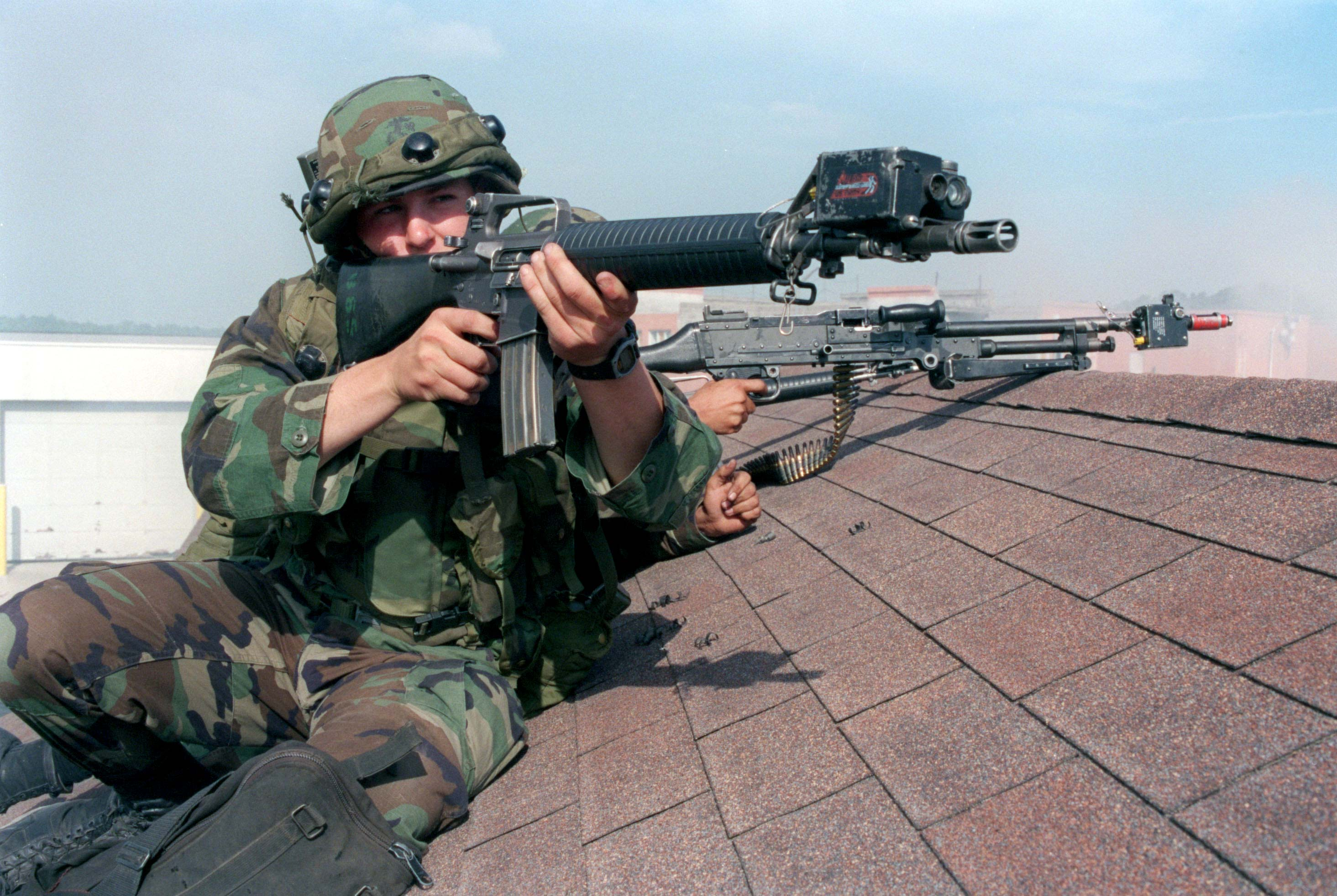 Pfc. Brian Ashavranner of Bravo Company, 1st Battalion, 8th Marines, engages the enemy with his M-16A2 service rifle from a roof at the Military Operations in Urban Terrain facility during Urban Warrior Limited Objective Exercise 2 on April 29, 1998, at Camp Lejeune, N.C. Urban Warrior is the U.S. Marine Corps Warfighting Laboratory's series of limited objective experiments examining new urban tactics and experimental technologies.